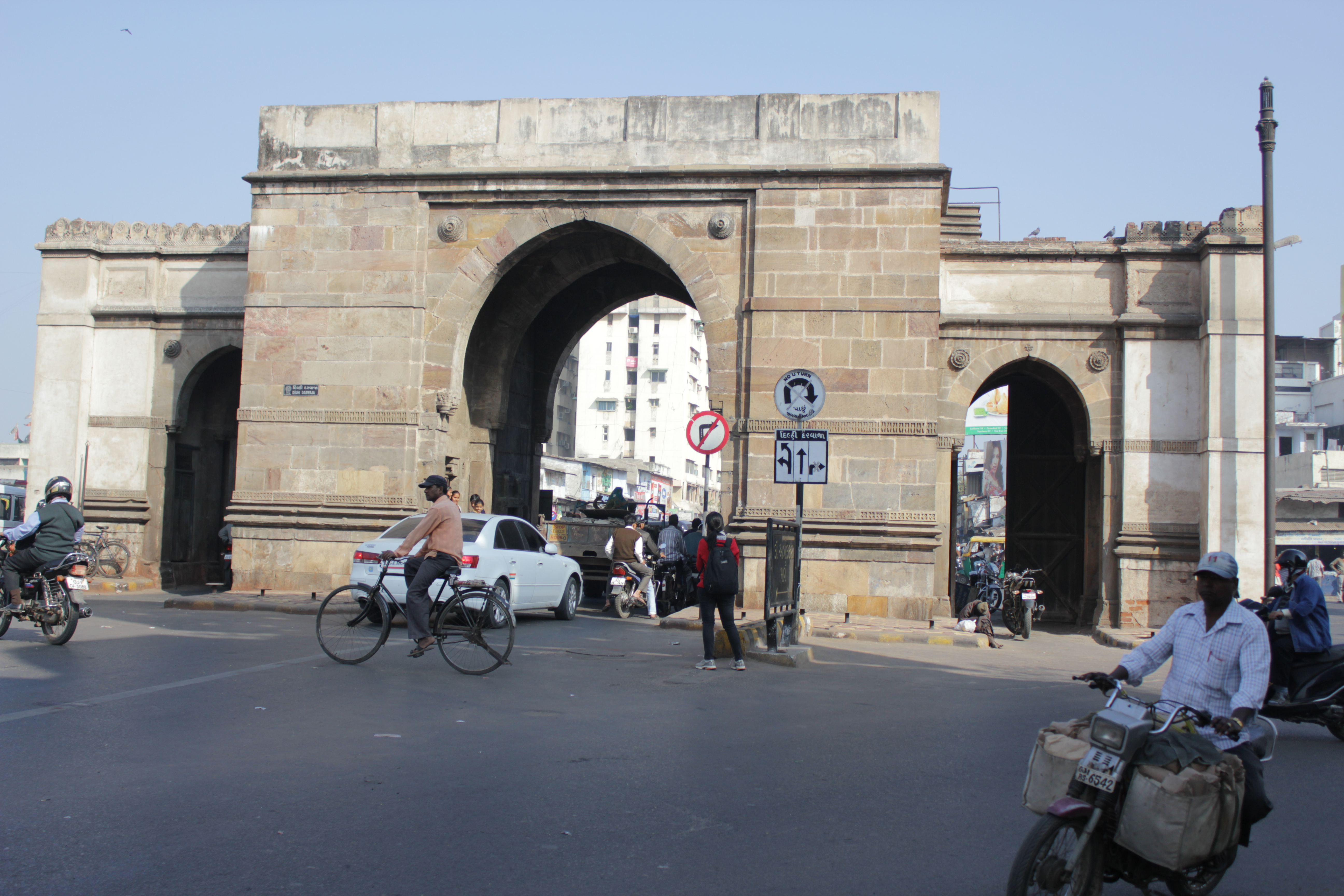 Delhi Darwaja during busy day.